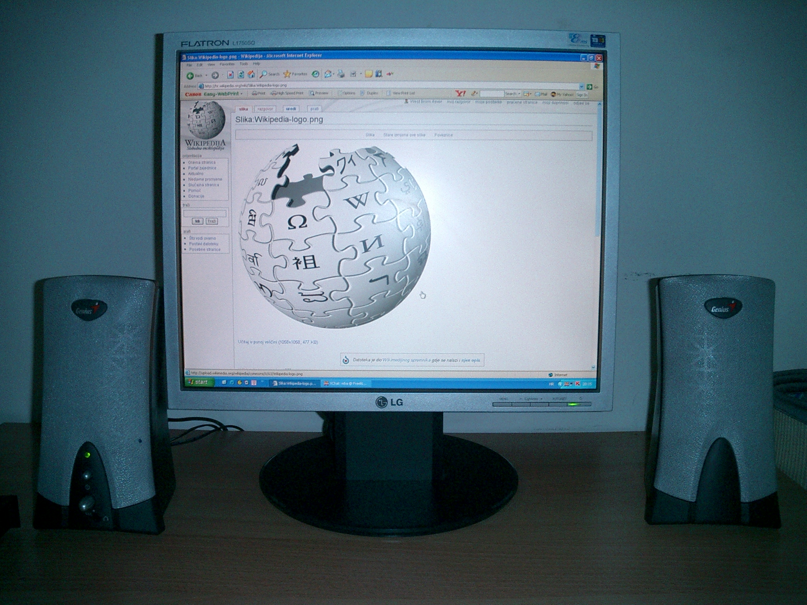 Computer screen and speakers on West Brom 4ever's computer